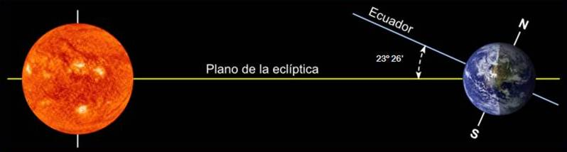 Viewed from a lateral plane scheme gives an idea of the inclination of the axis of rotation of the earth relative to the ecliptic.